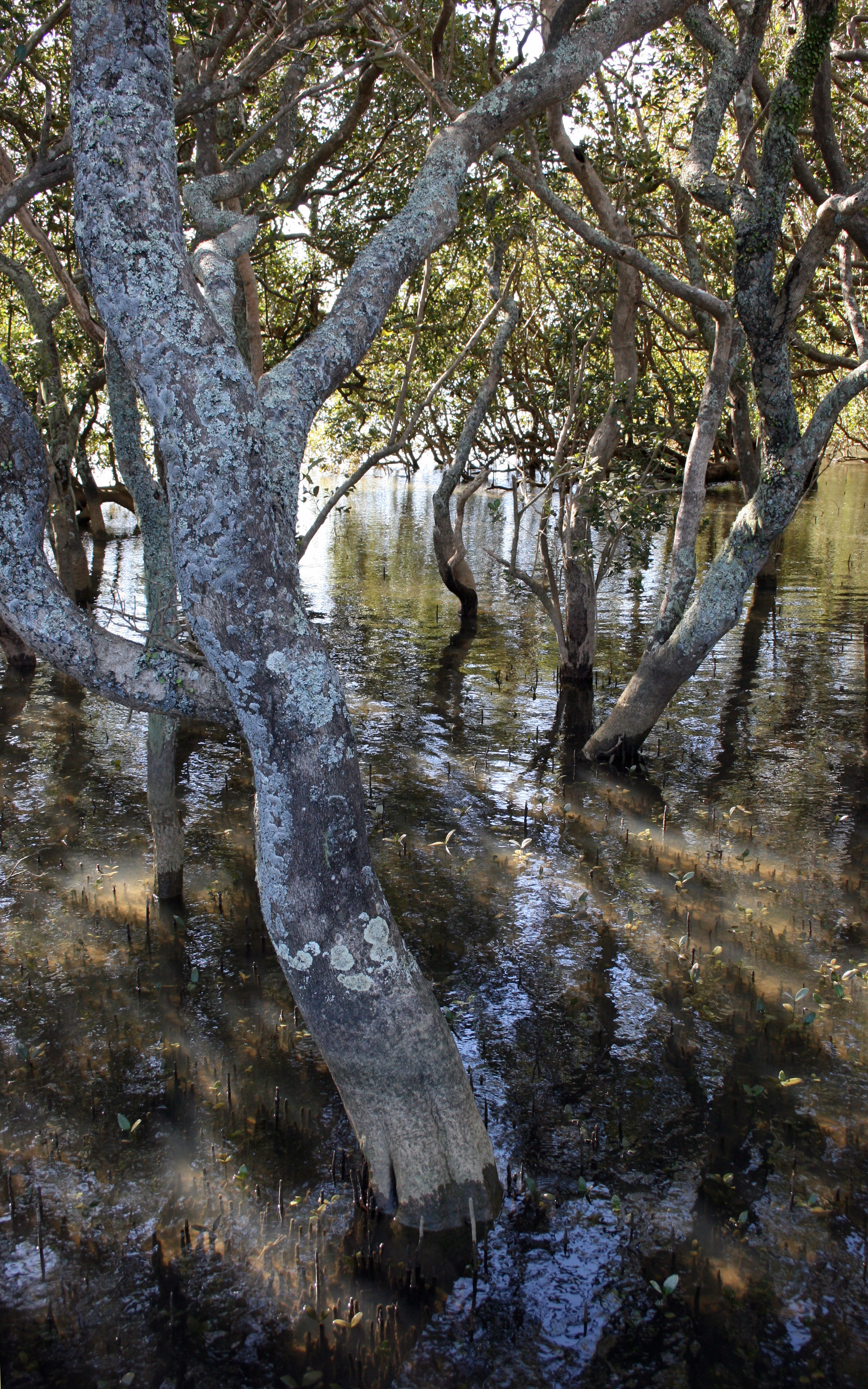 Mangroves Avicennia marina subsp. australasica, Waipatiki Creek, Bay of Islands, New Zealand.